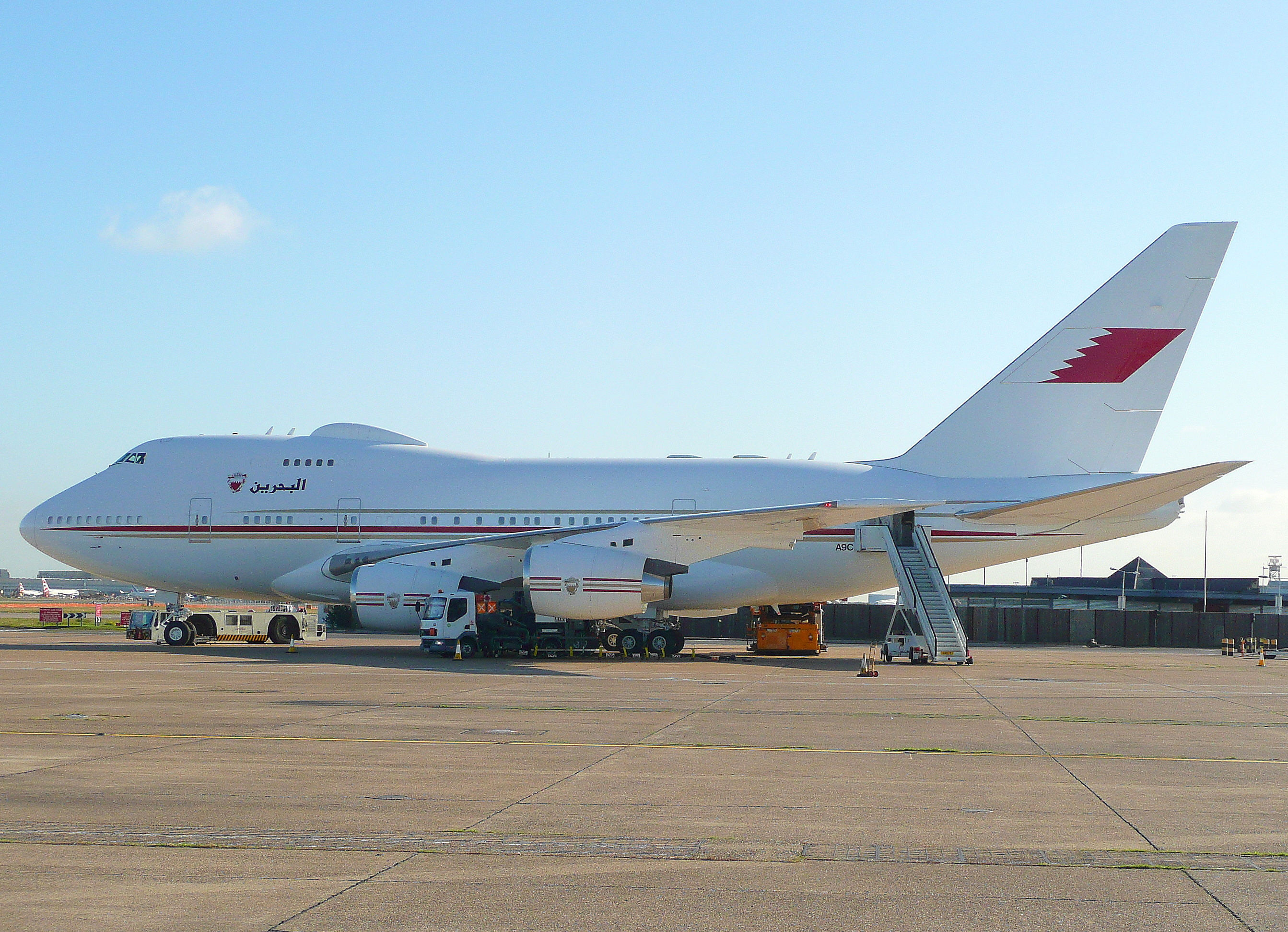 A9C-HAK B747SP Bahrain Amiri Flight being refuelled before departure on std 601.